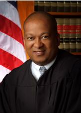 Headshot of the judge